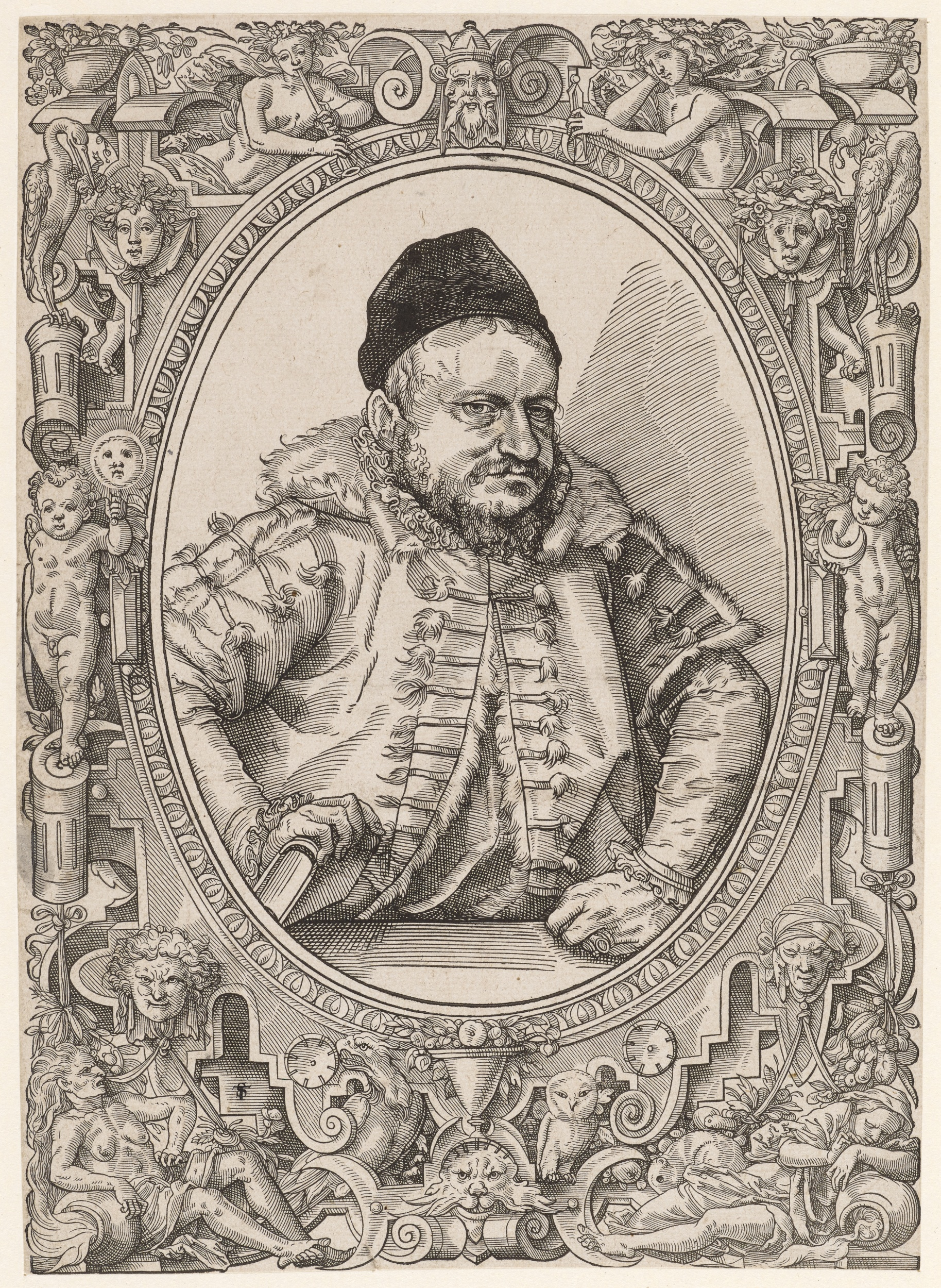 Tobias Stimmer: Bildnis des Sigmund Feyerabend, um 1571. Blatt: 22.6 x 16.2 cm; Holzschnitt; Kunsmuseum Basel, Inv. Aus E.21